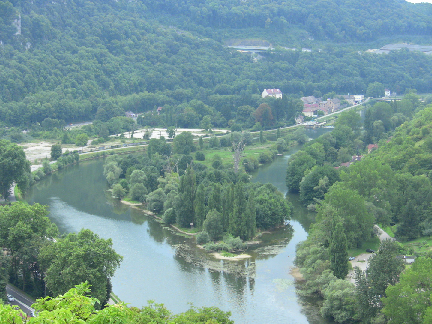 Malpas island, in Besançon (France)